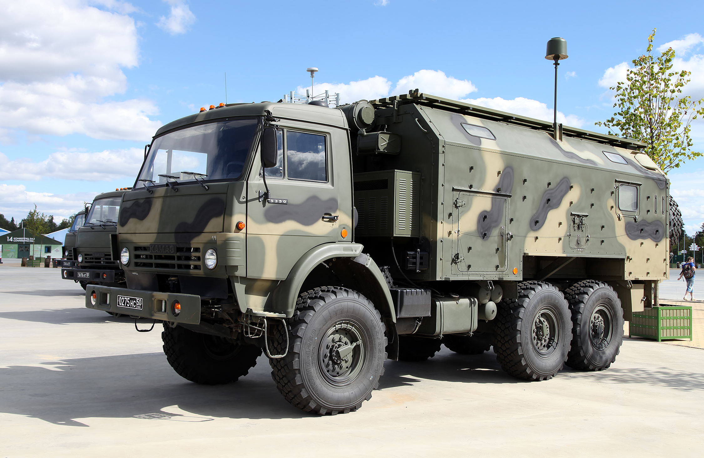 Комплекс РЭБ РБ-341В Леер-3 (RB-341V Leer-3 ECM system with UAV)